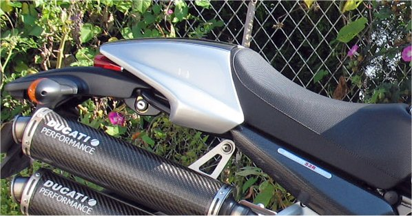 Moto Ducati Monster S2R 1000